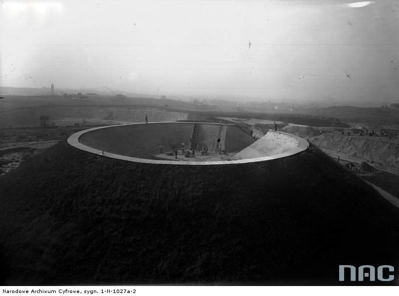 Krak Mound